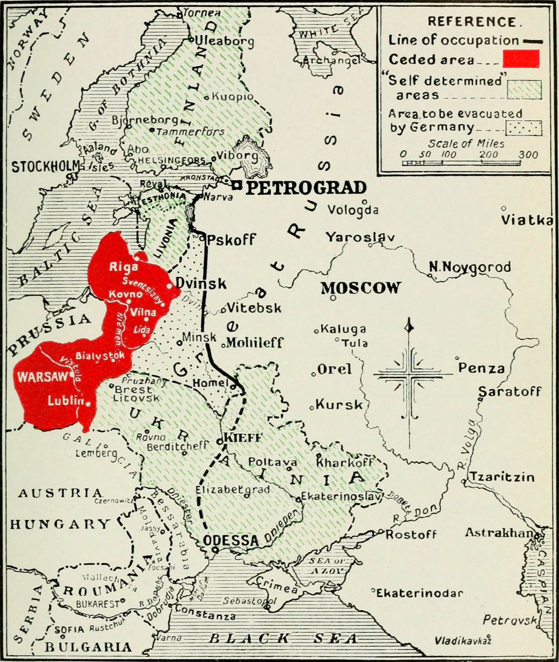 Map showing territory lost by Russia according to the terms of the Treaty of Brest-Litovsk.